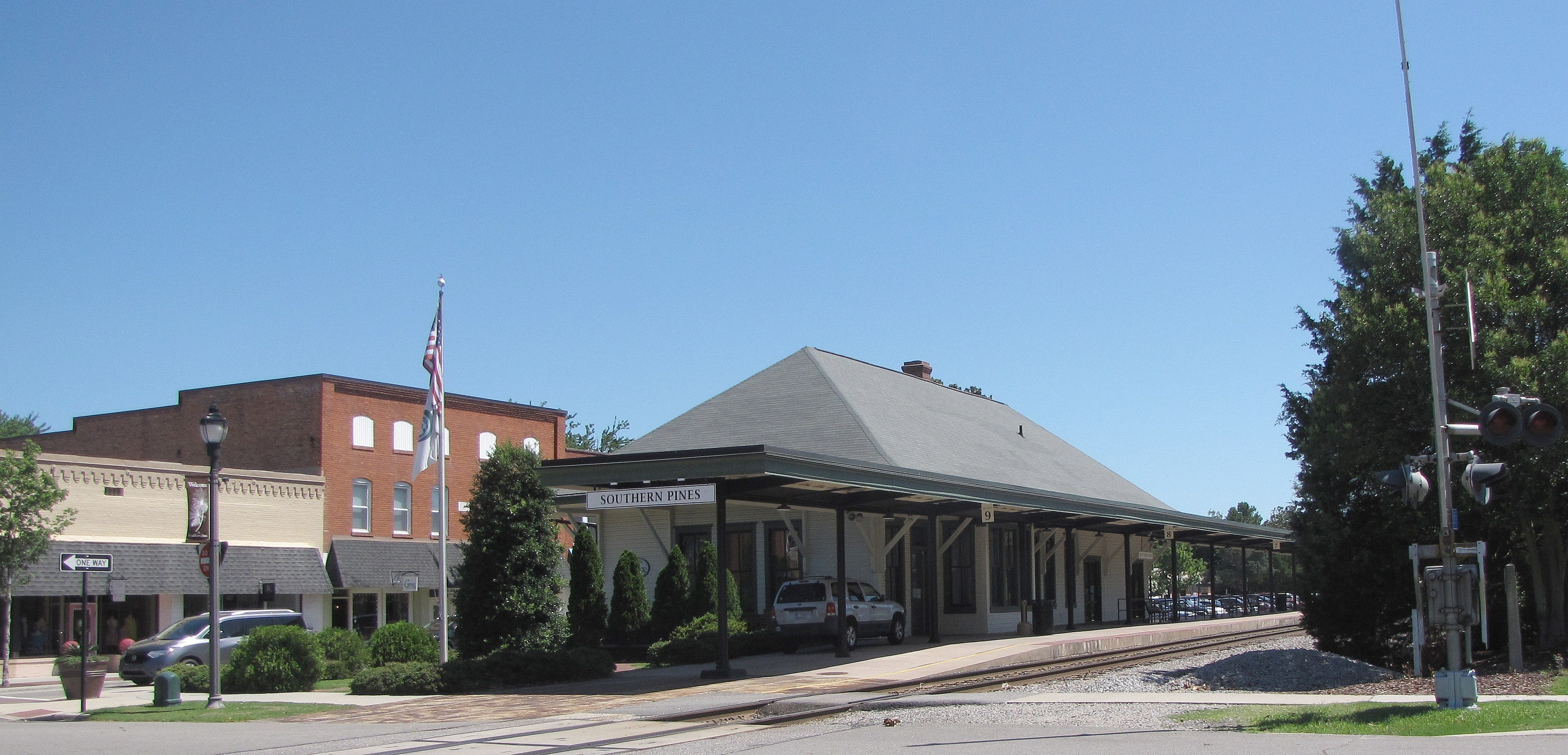 Amtrak Station in Southern Pines, North Carolina.